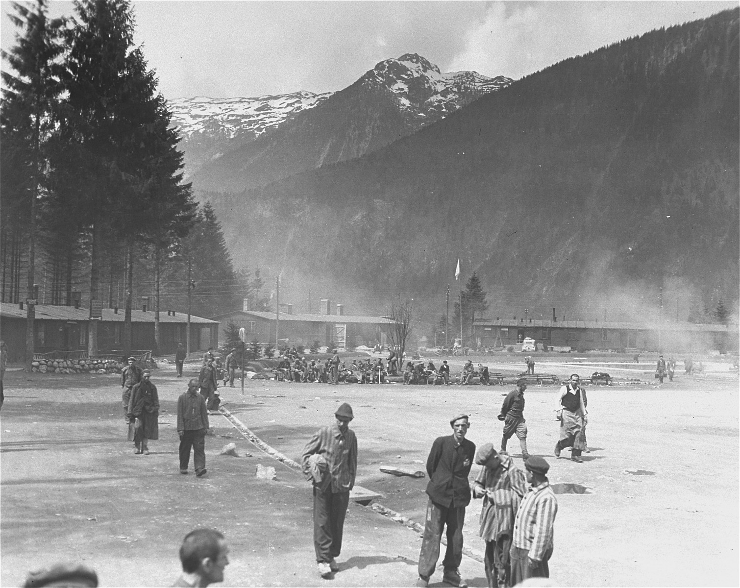 see title